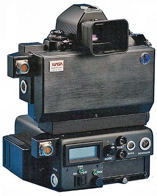 NASA